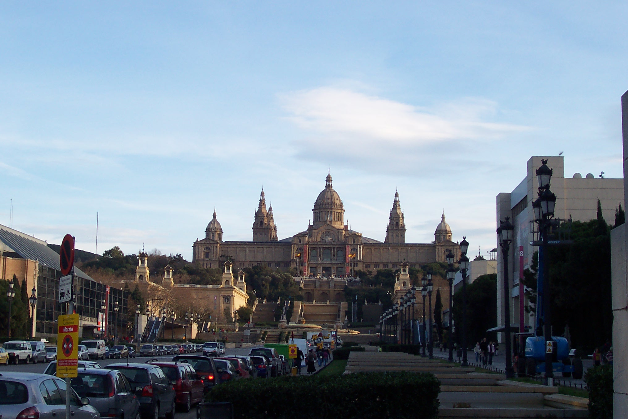 Is important in regards to the Bombardment of Barcelona because it was a place of refuge. Serves as a municipal facility.